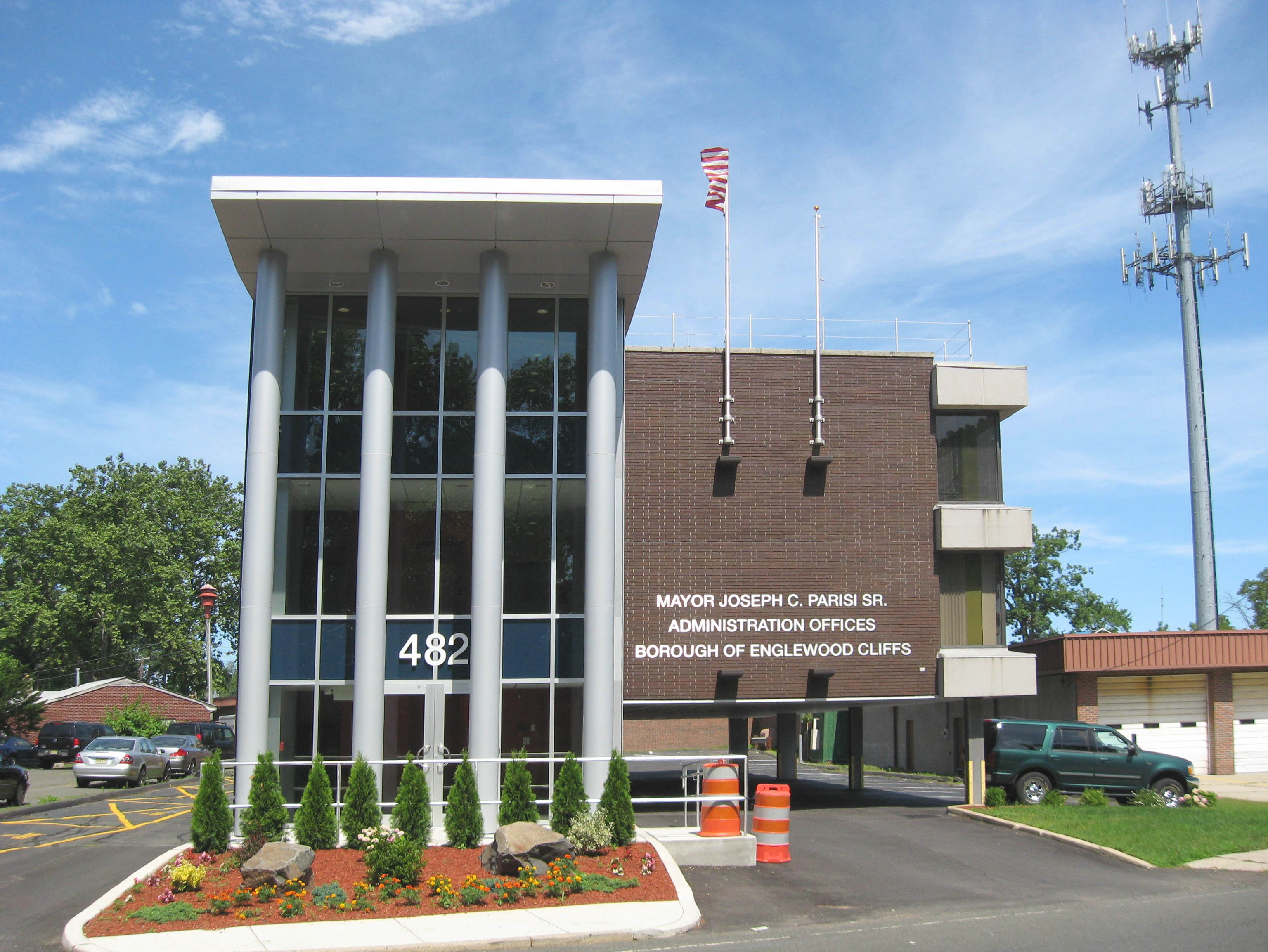 Looking northwest at Englewood Cliffs, New Jersey municipal building (police, etc) on a sunny late morning.